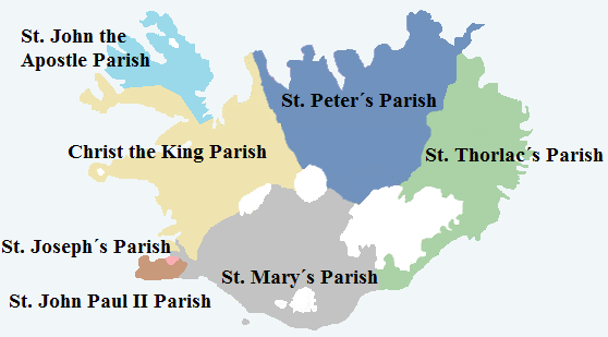 Catholic parishes in Iceland - 2018